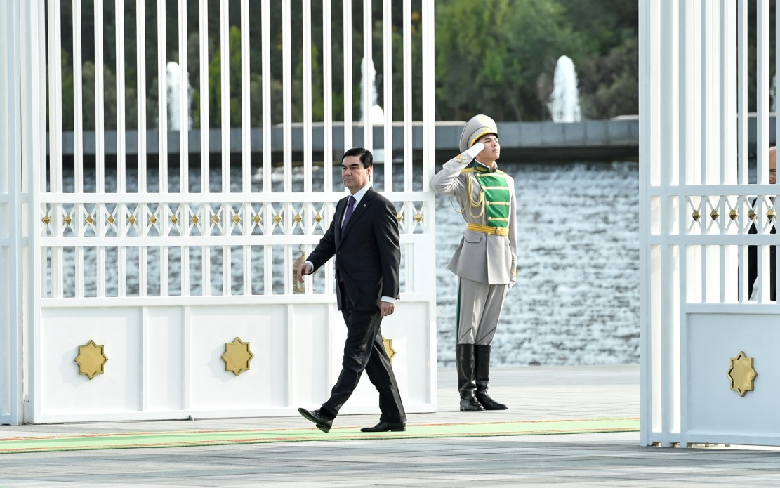 President Petro Poroshenko noted that his visit to Turkmenistan opened new opportunities for Ukrainian companies in the cooperation between the two countries.